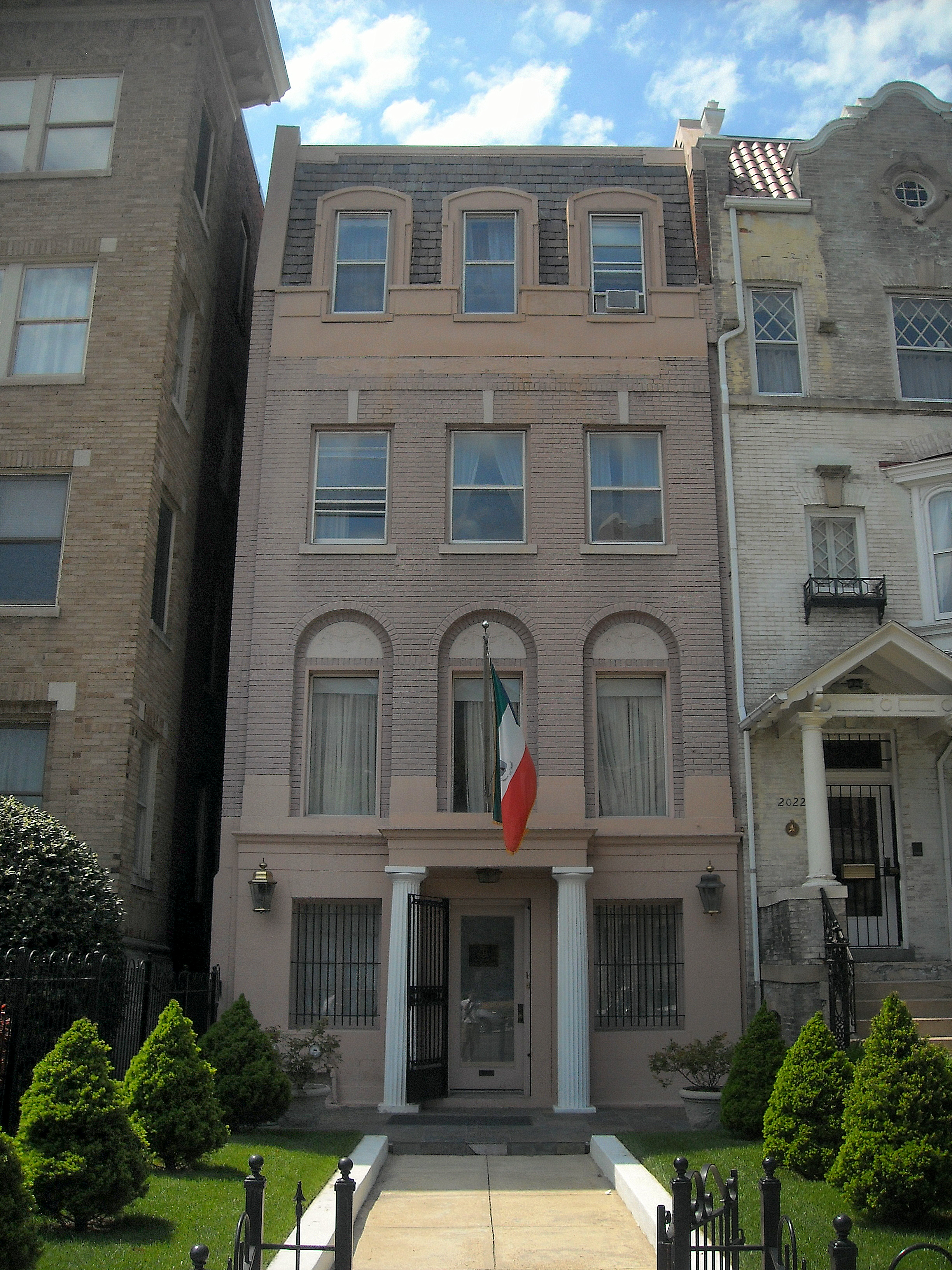 The Embassy of Equatorial Guinea located at 2020 16th Street, NW in the U Street Corridor of Washington, D.C. Constructed in 1910, the Italianate building is a contributing property to the Sixteenth Street Historic District. Its 2009 property value is $1,492,110. Notable past owners of the building include the government of Taiwan (office of the military attaché; Chinese National Relief and Rehabilitation Administration office) and the government of Spain (embassy and residence of Juan Riaño y Gayangos).